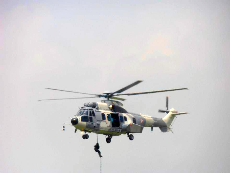 EC725 COUGAR